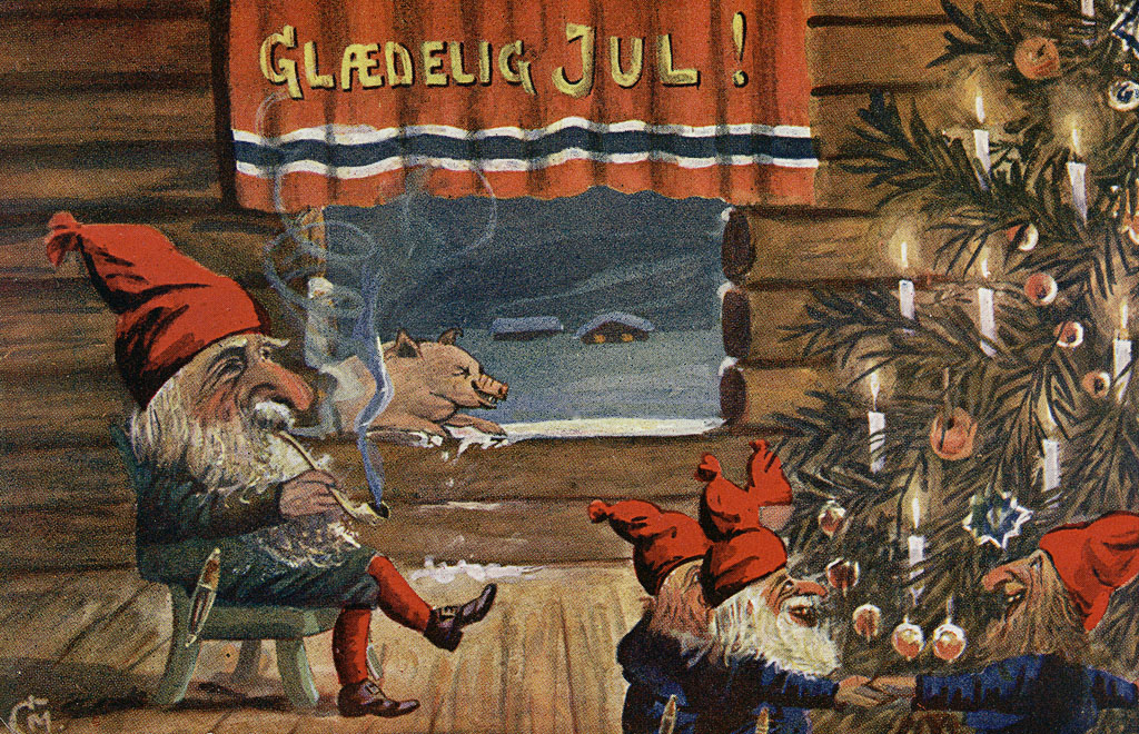 Tittel / Title: Glædelig Jul, ca 1917 Motiv / Motif: Postkort / julekort. Dato / Date: ca 1917 Kunsnter / Artist: Christian Magnus Utgiver / Publisher: J. H. Küenholdt Eier / Owner Institution: Nasjonalbiblioteket / National Library of Norway Lenke / Link: Bildesignatur / Image Number: blds_01827